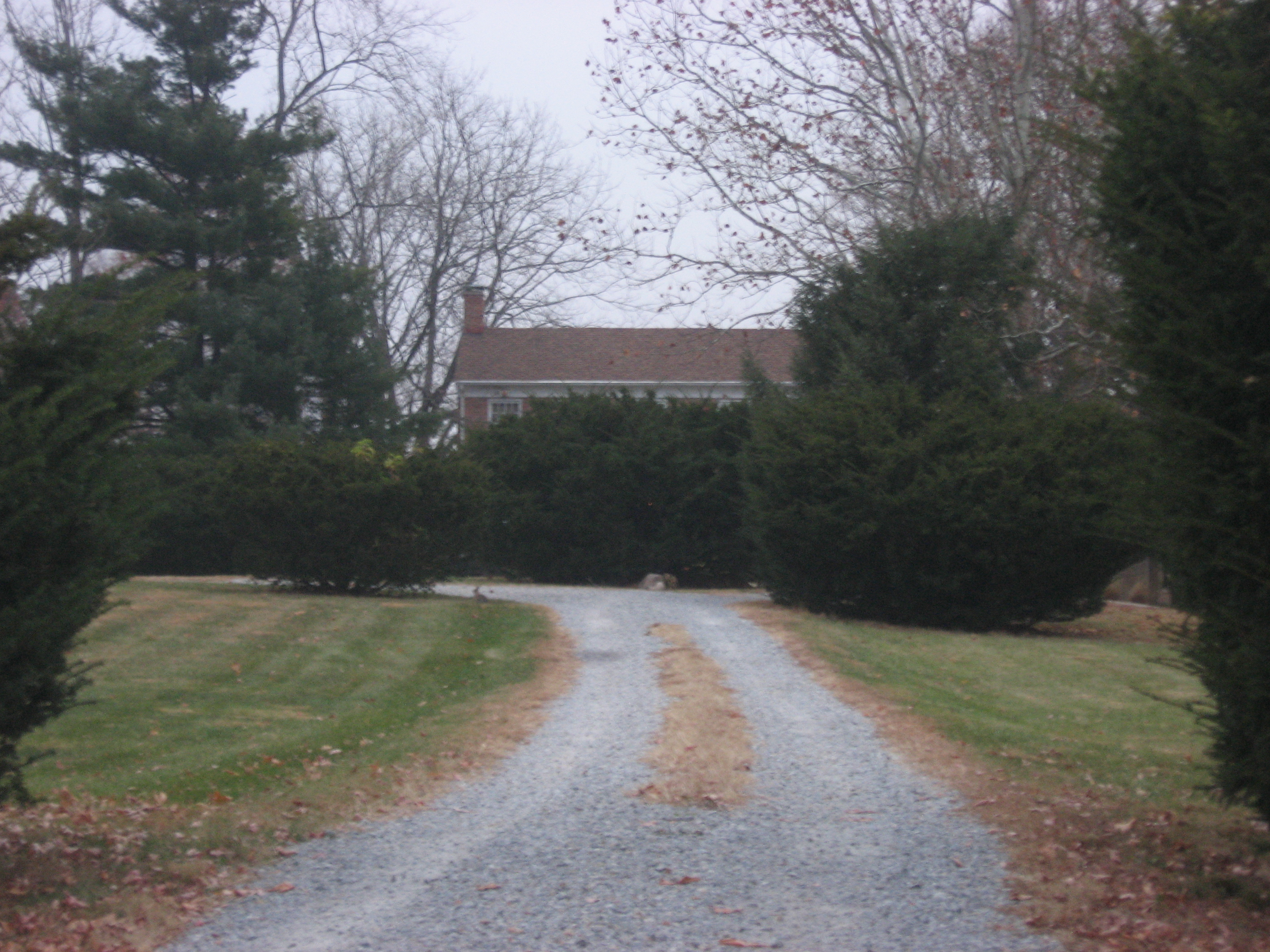 Driveway to the Ely Homestead, located at 4106 E. 200N northeast of Lafayette in northeastern Fairfield Township, Tippecanoe County, Indiana, United States. Built in 1877, it is listed on the National Register of Historic Places.